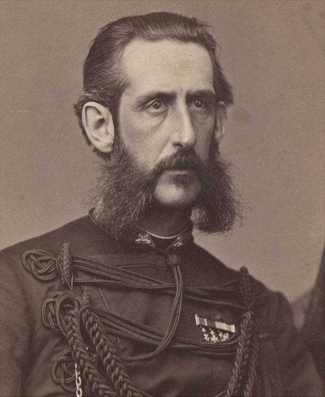 Prince August of Sweden and Norway